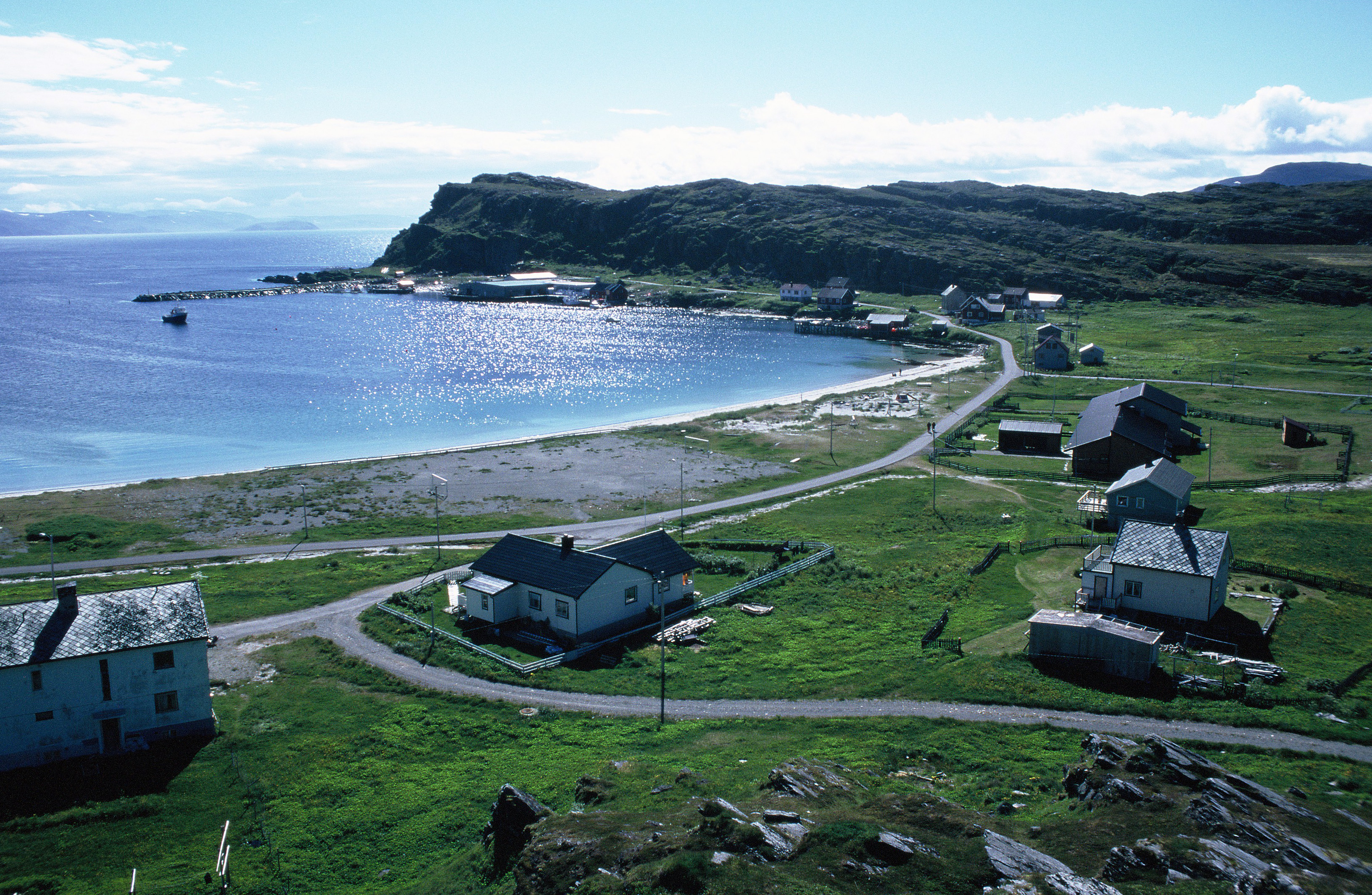 Masøy island, Masøy municipality, Finnmark, Norway